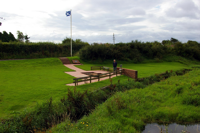 Brow Well Ruthwell Parish Robert Burns visited Brow Well on the 4th July 1796. On the advice of his doctor he drank the waters (a chalybeate spring) and returned home to Dumfries on the 18th where he died on 21st July 1796.